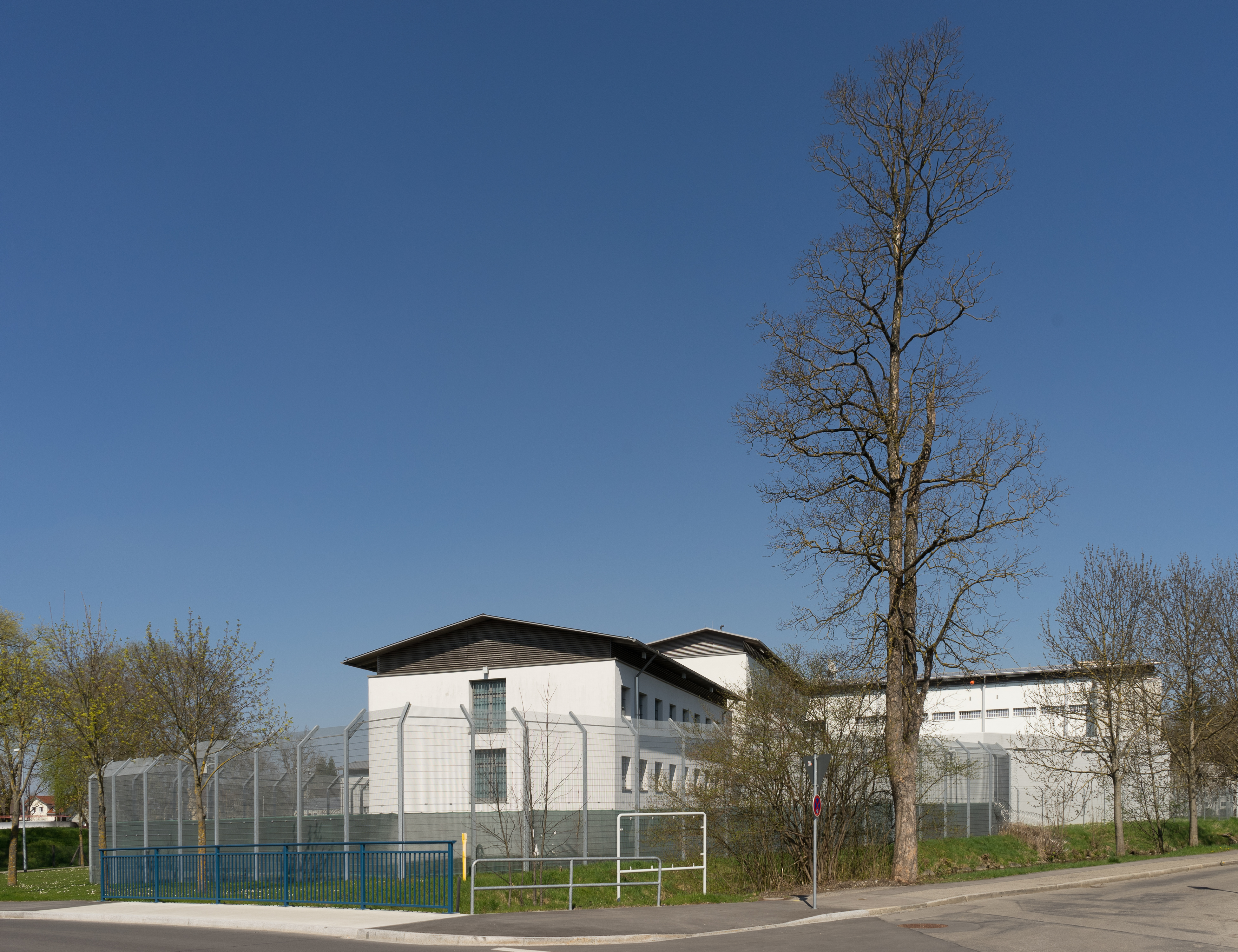 Prison in Memmingen.